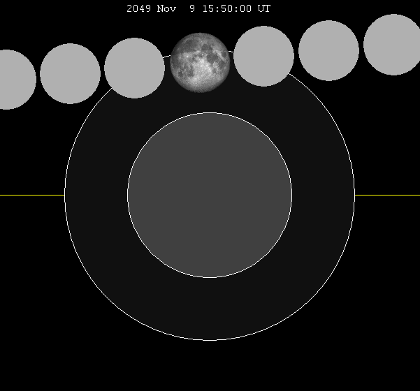 November 2049 lunar eclipse chart of moon's path through the earth's shadow. thumb